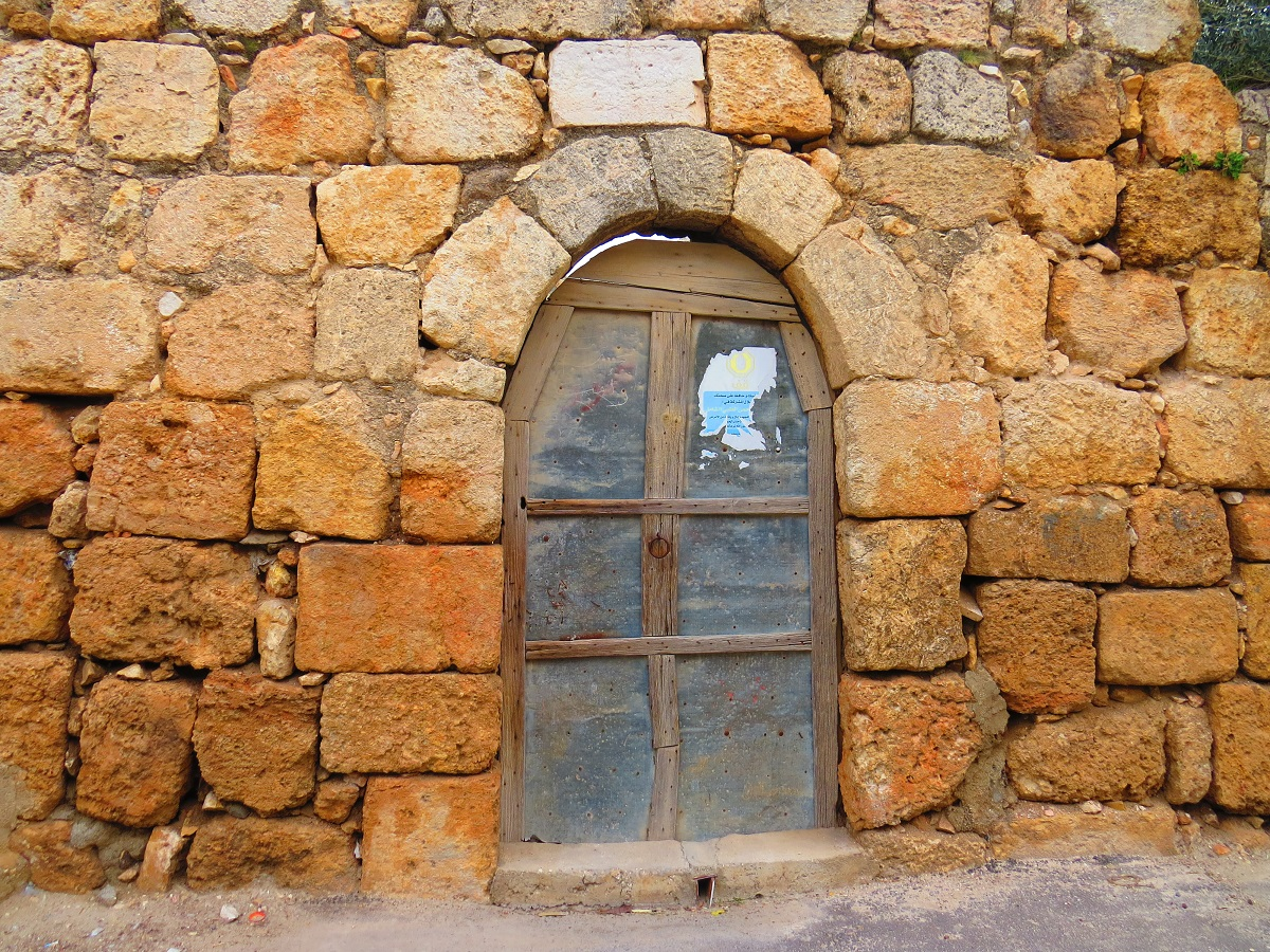 Old house in AS-Samu - South Hebron - Palestine